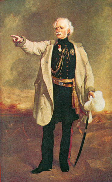 The painting of Lord Gough shows him apparently directing operations during the Sikh wars but he posed for it in England in 1854, wearing his famous white 'battle coat' and sun hat which made him more conspicuous in the fog of battle. The decorations on his chest include the star of the Order of the Bath and two medal ribbons for China and Gwalior.